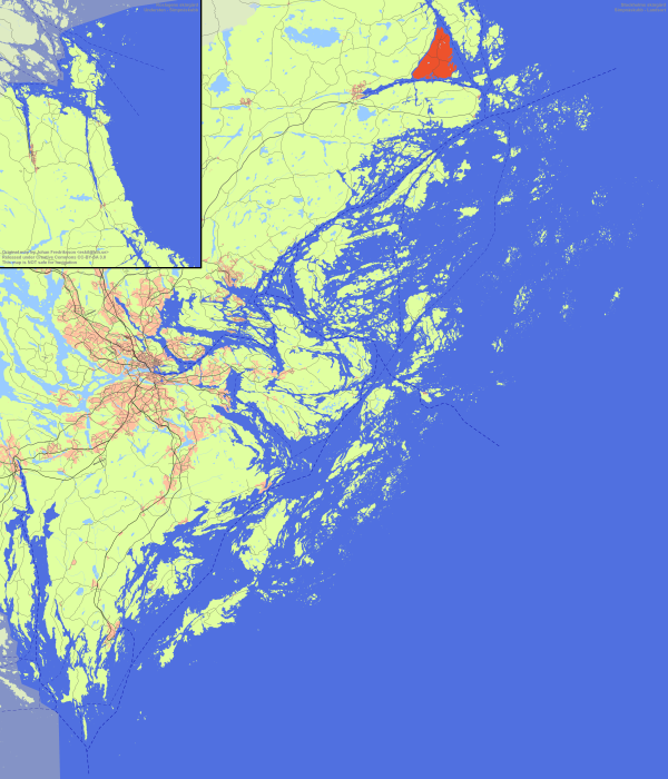 Location of the island Vätö